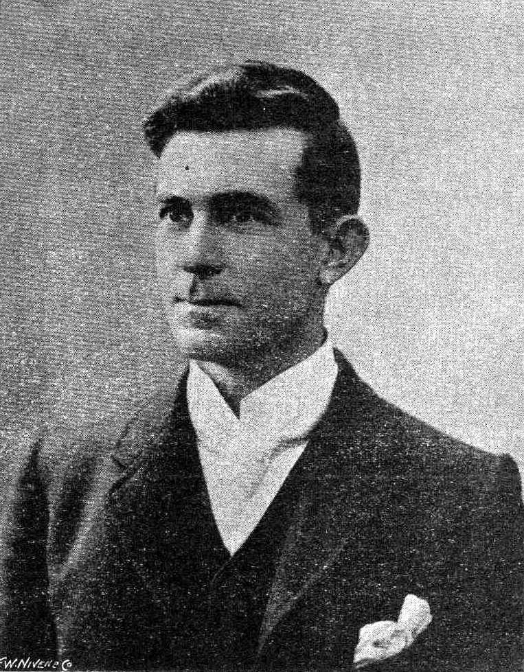 Scan from original